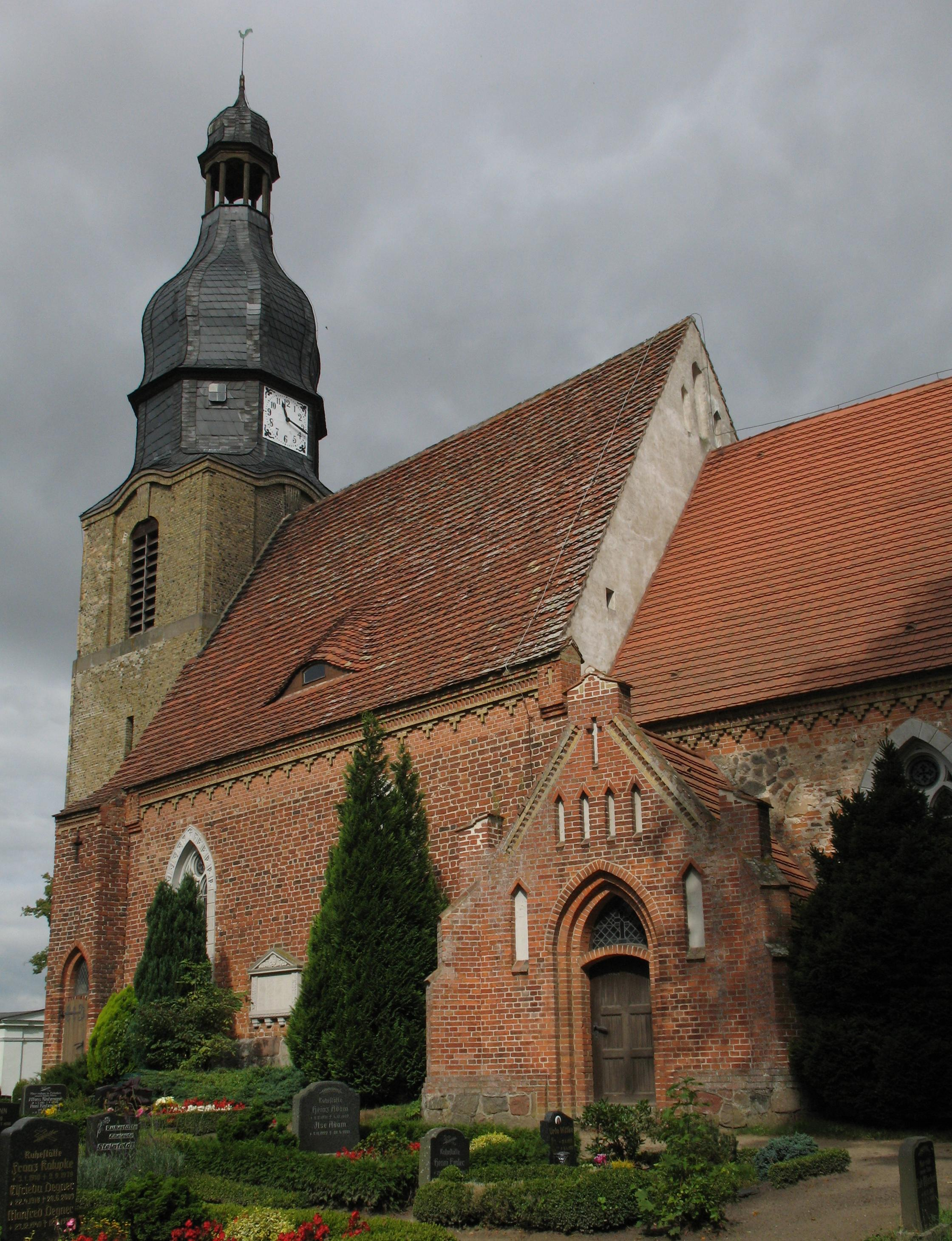 Church in Boddin in Mecklenburg-Western Pomerania, Germany